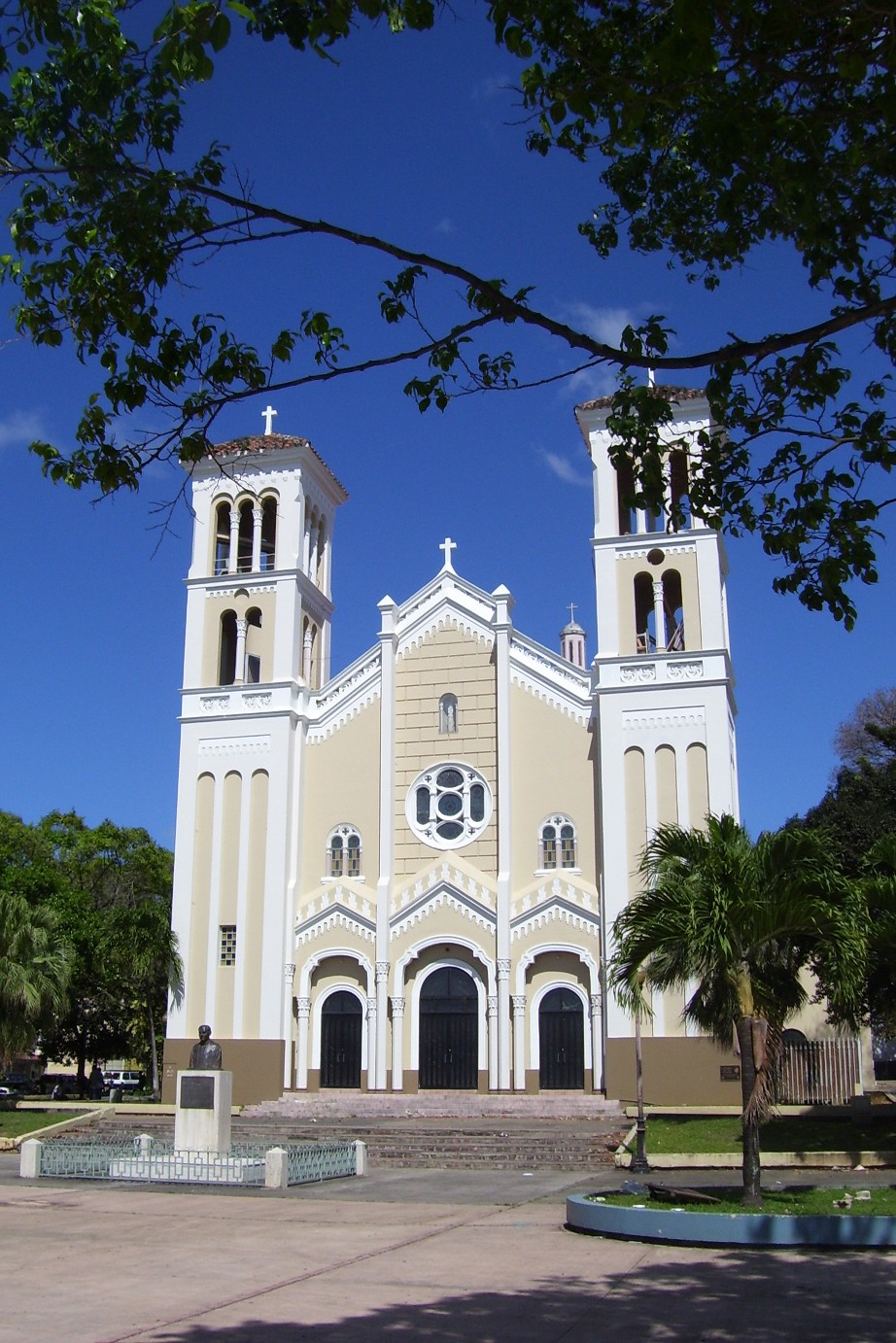 One of the oldest cathedrals in Puerto Rico serving a social and religious work uninterruptedly for three centuries in all its neighborhoods and surrounding areas while Río Piedras was a separate town until this present day.